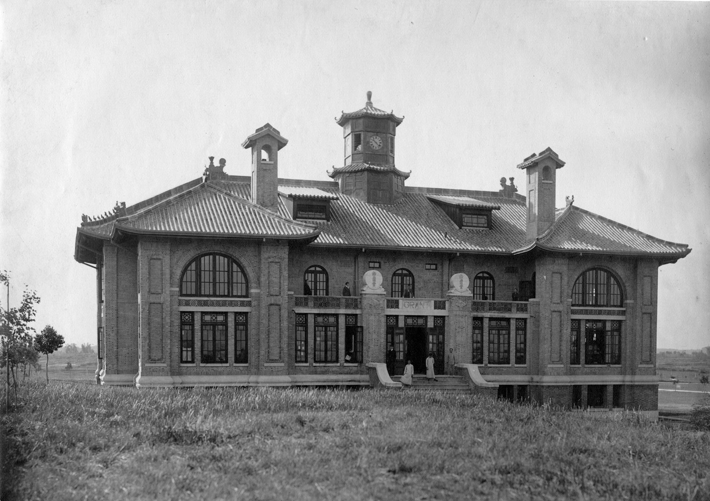 Buildings and scenes: Grant Hall